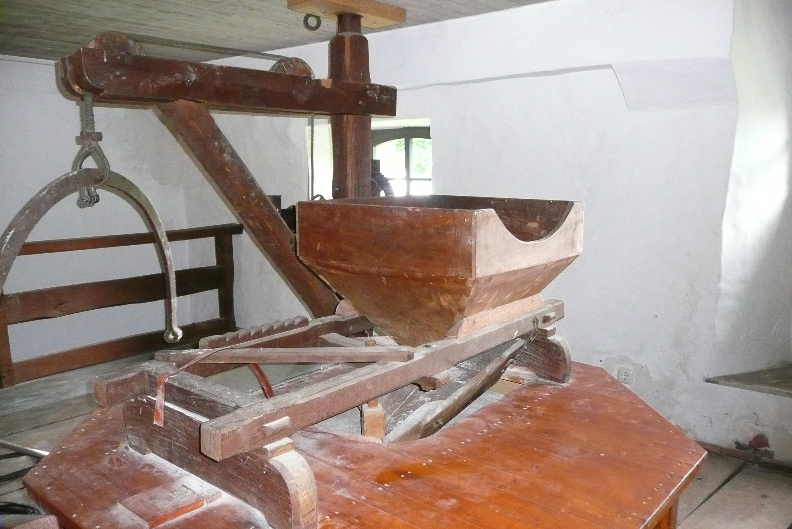 Inner part of Welsche Muehle in Aachen-Haaren